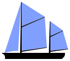 Hinted to 139 × 120. Best displayed as an integer multiple of those dimensions.